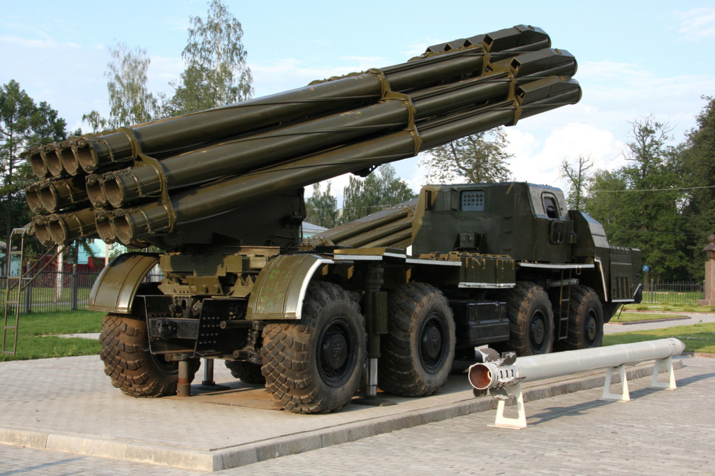 BM-30 Smerch MLRS as a monument to A.N. Ganichev near Splav State Research and Production Enterprise, Tula city.